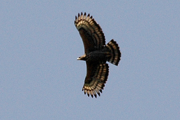 Crowned Eagle, Stephanoaetus coronatus, in Uganda